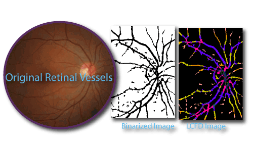 Retina and colour coded fractal analysis done using FracLac free open source software.